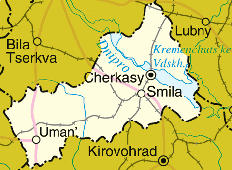 Map of Cherkasy Oblast, Ukraine.